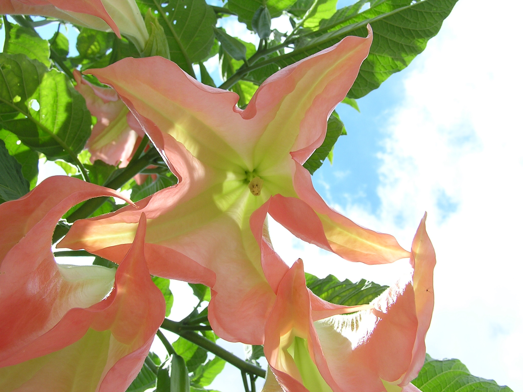 Blooms of a Brugmansia